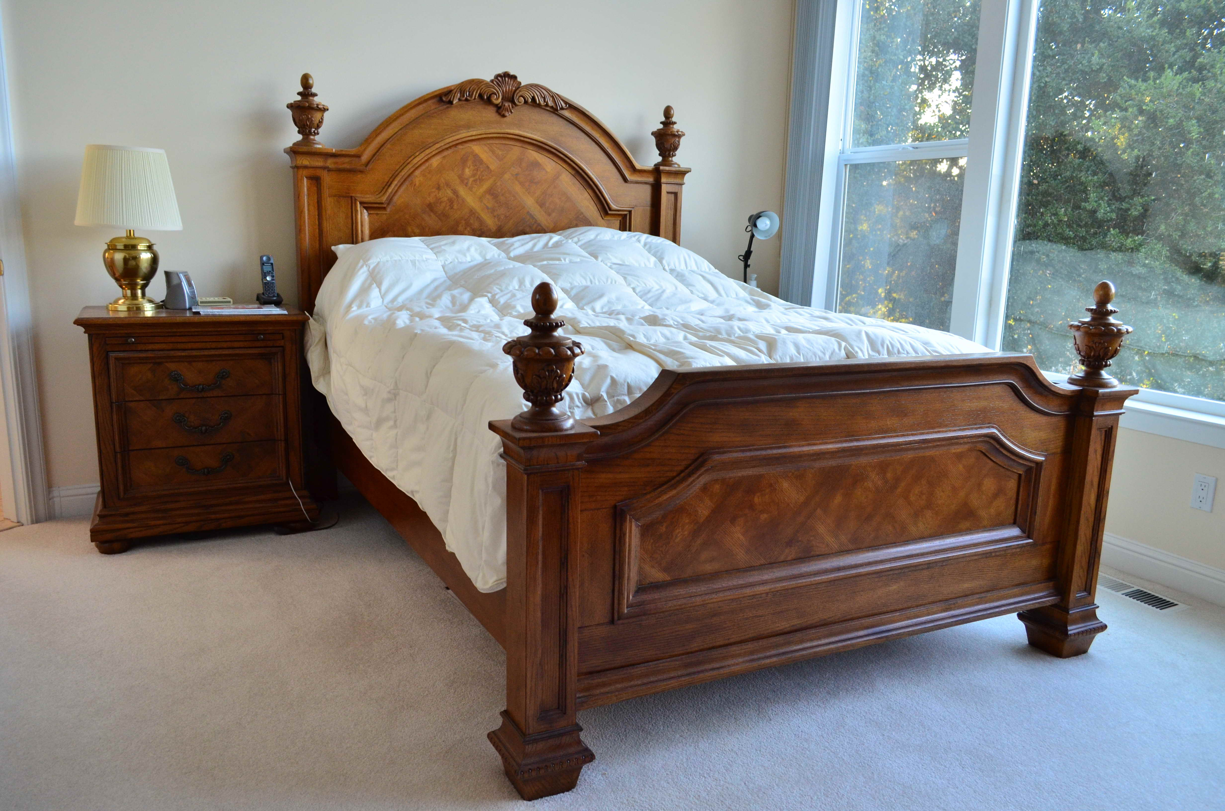 Old bed